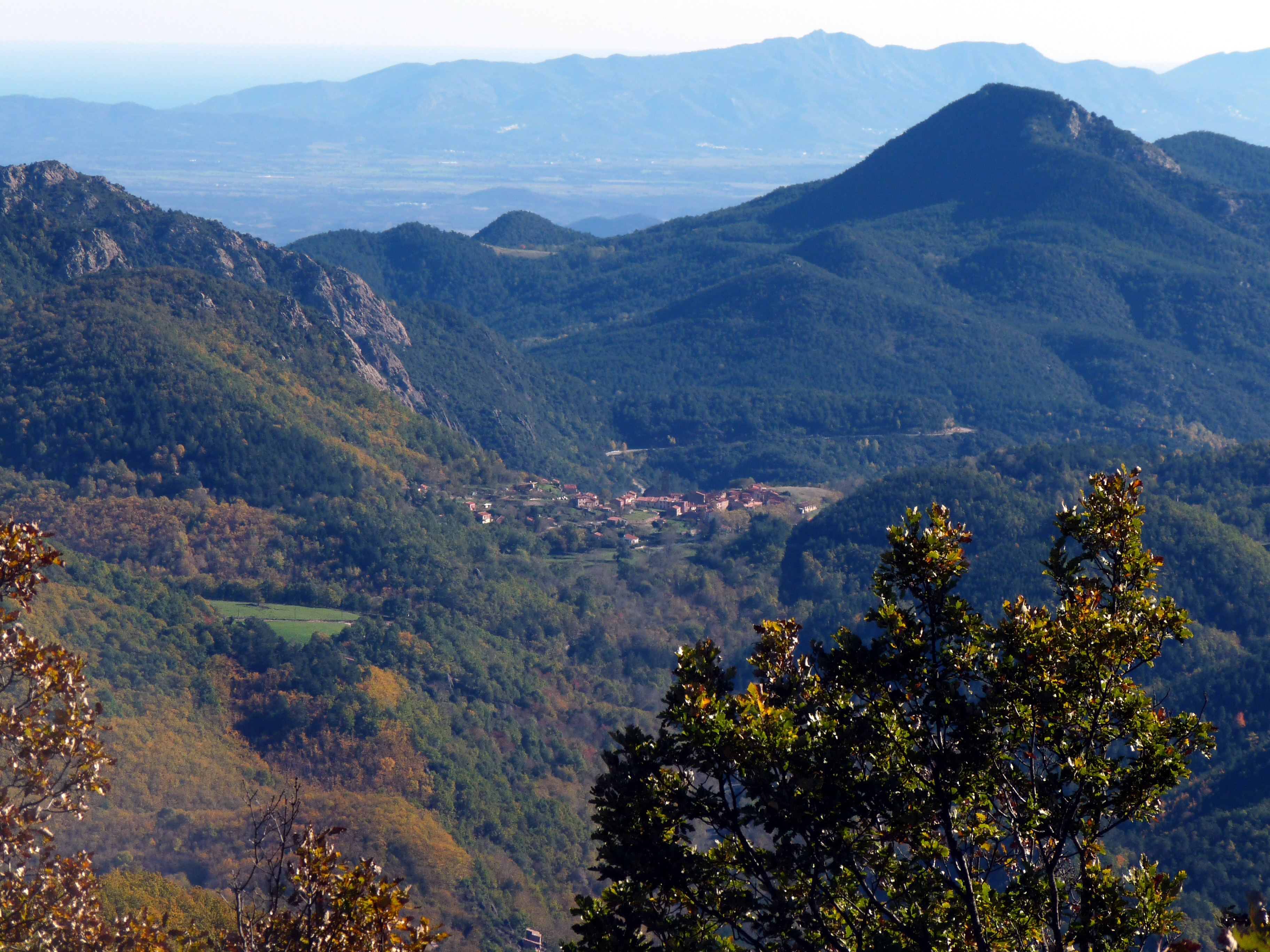 Coustouges village, Pyrénées-Orientales (France)